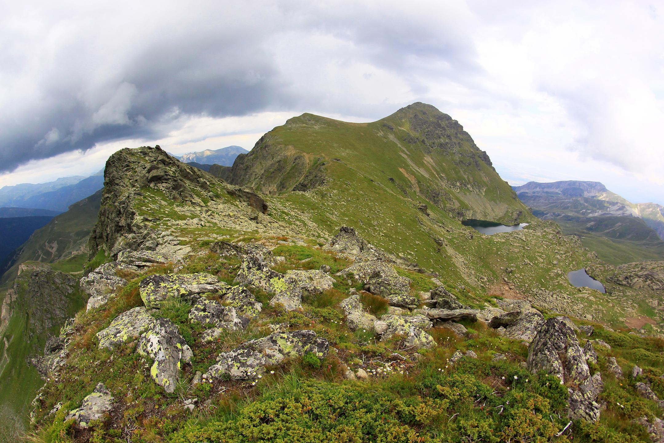 Complete view of Gjeravica peak 2656 m alt and it's two lakes on the bottom right.